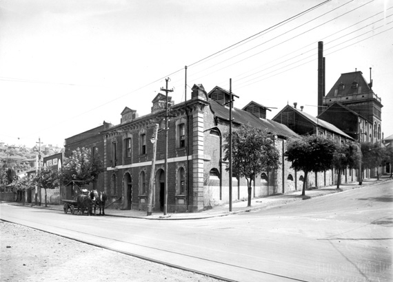 The Emu Brewery in Perth, Western Australia 190